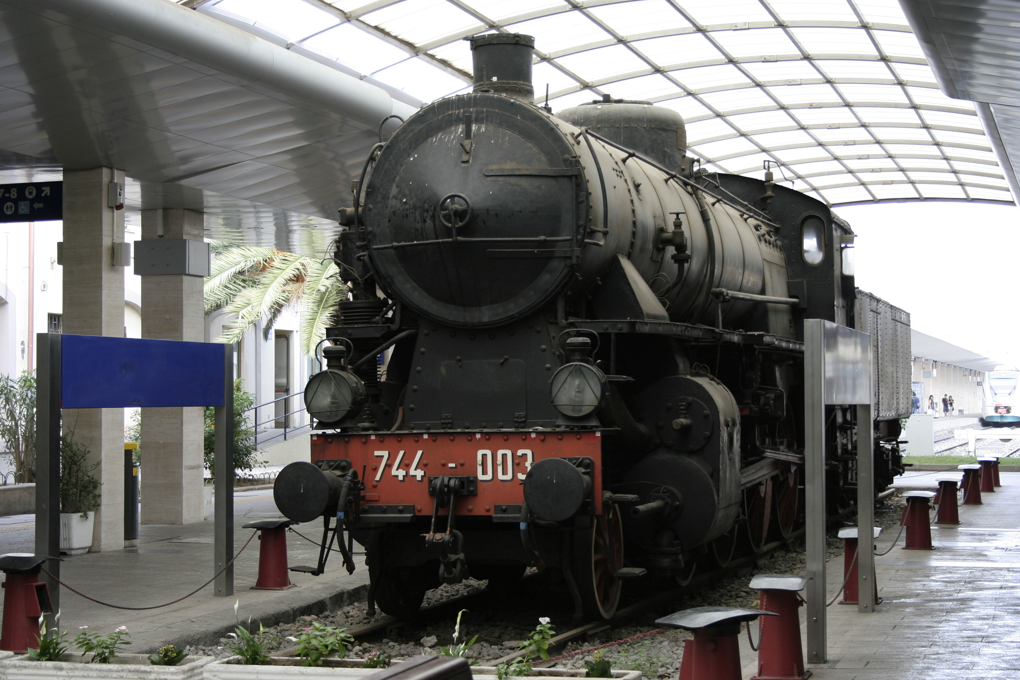 Locomotive FS 744 series